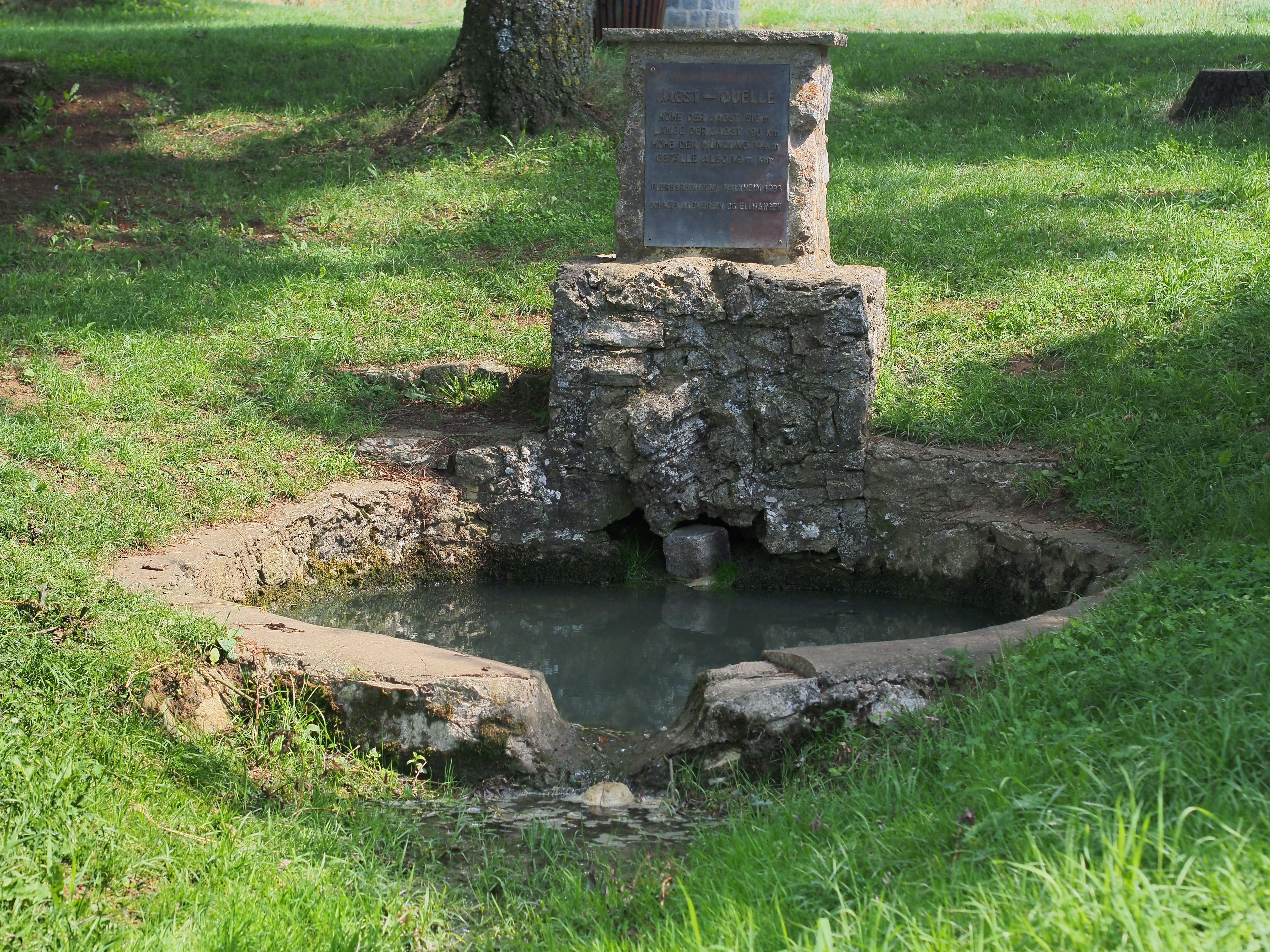 The spring of Jagst river, Germany, in a dry summer